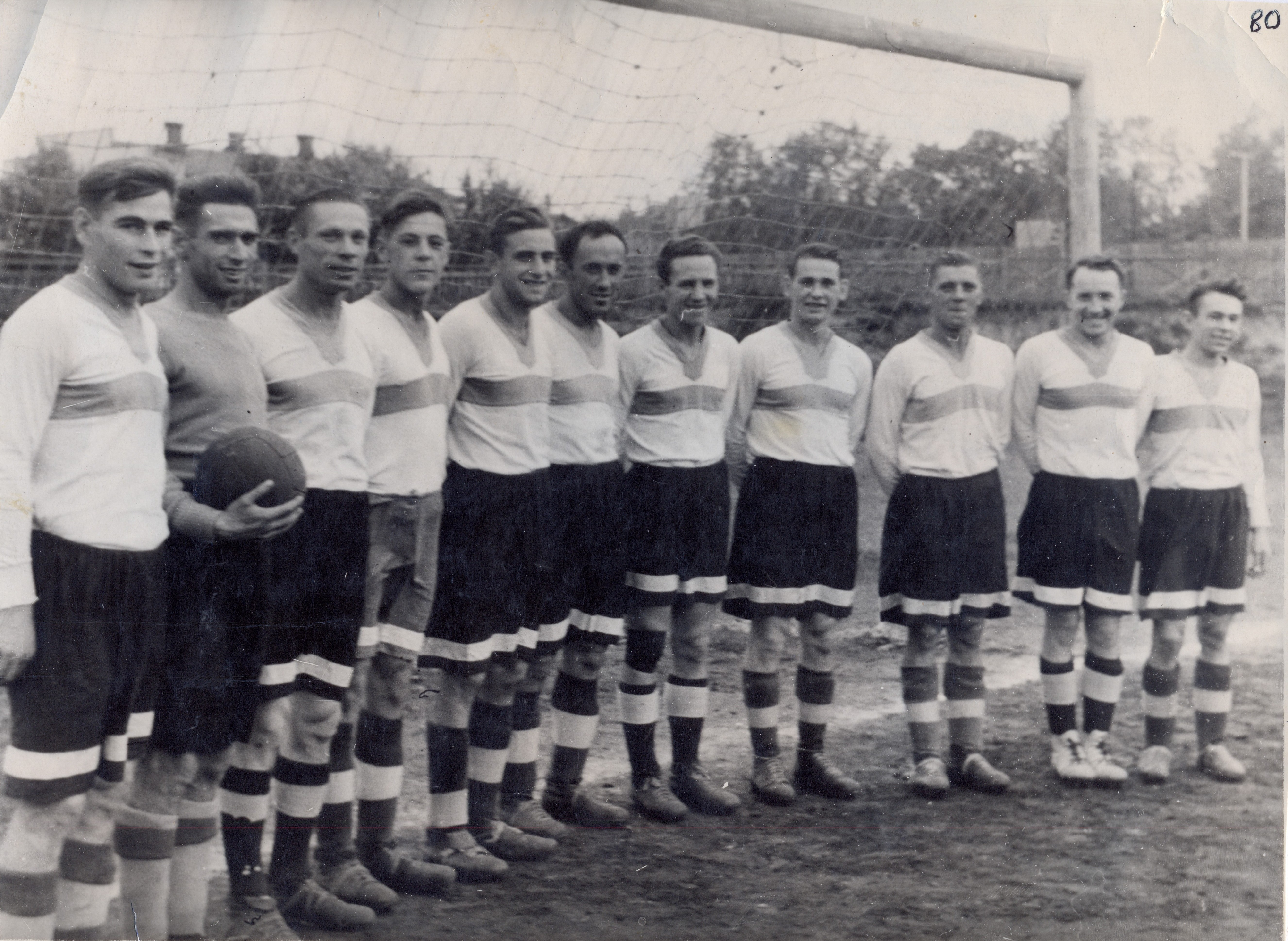 Футбольная команда пермского Динамо на фоне ворот